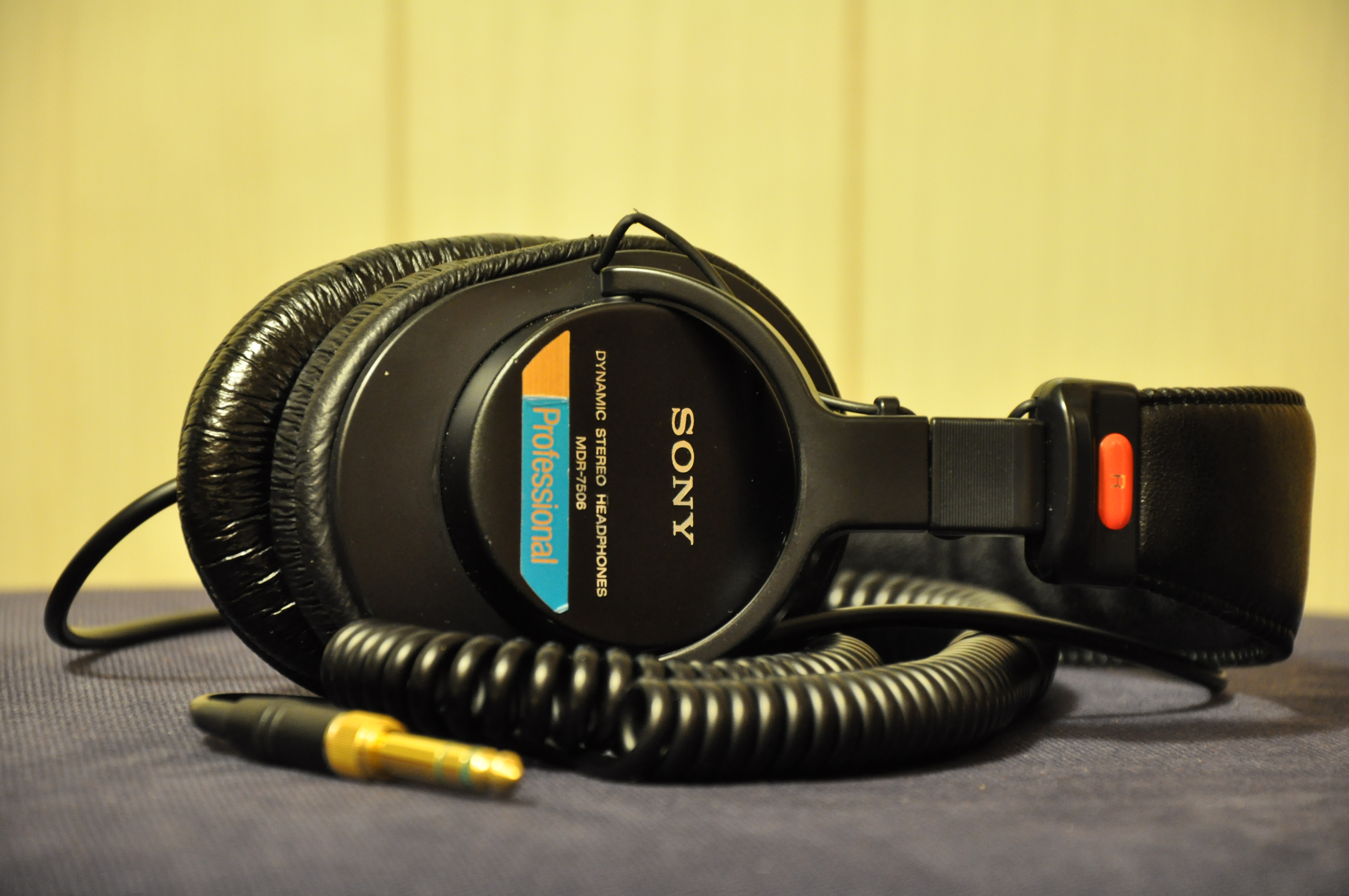 A Sony MDR-7506 with Male 1/4″ TRS connector attached.